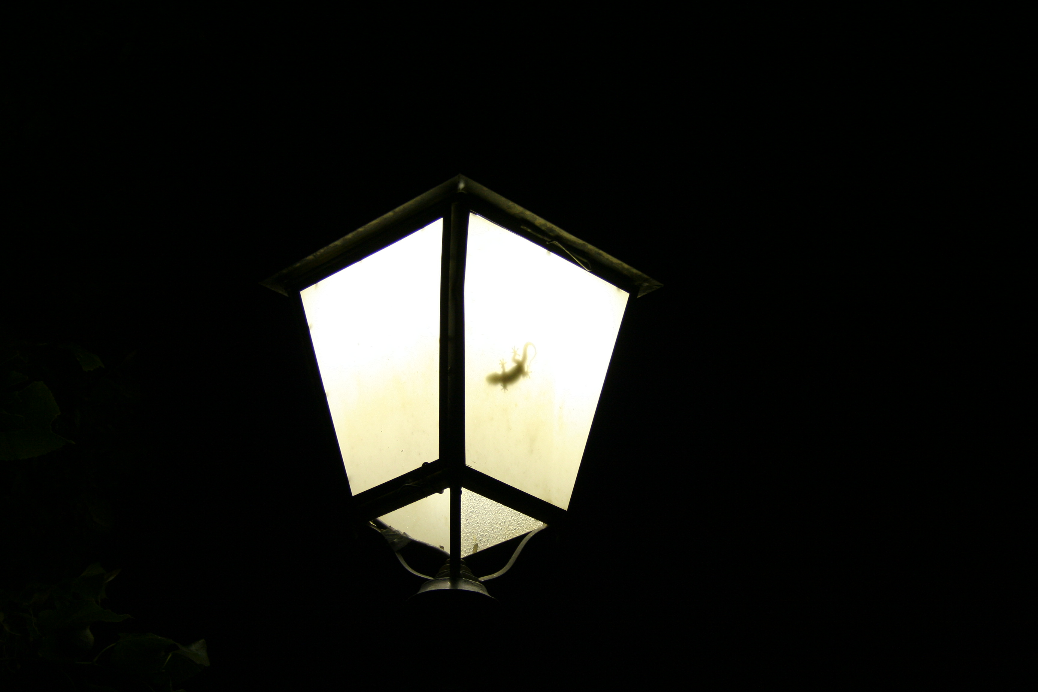 Gecko (more precisely Hemidactylus frenatus), also known as margouillat in France (where the picture was taken), hidden inside a street lamp to eat insects.